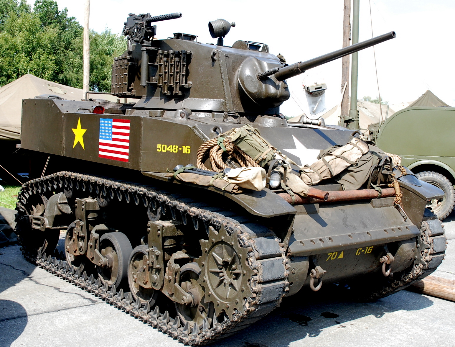 Stuart tank American armoured vehicle